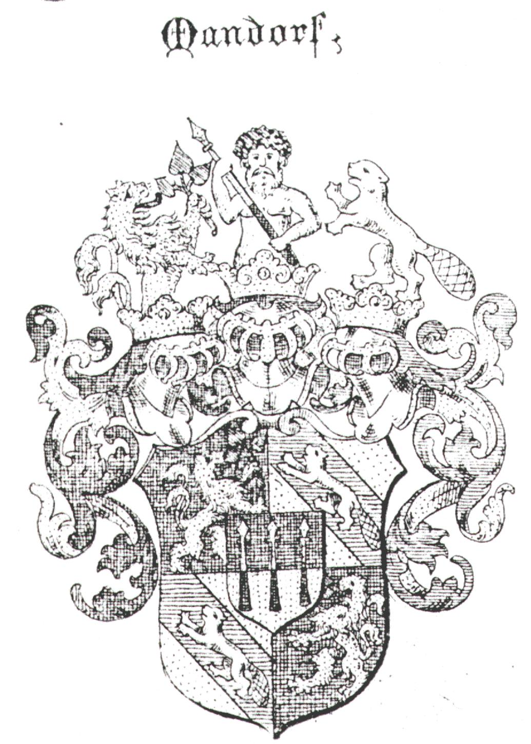 Wappen Freiherr Manndorff